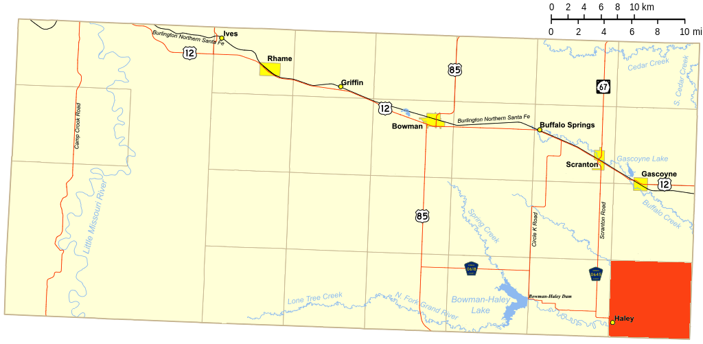 Map of Bowman County, ND, with Haley Township highlighted